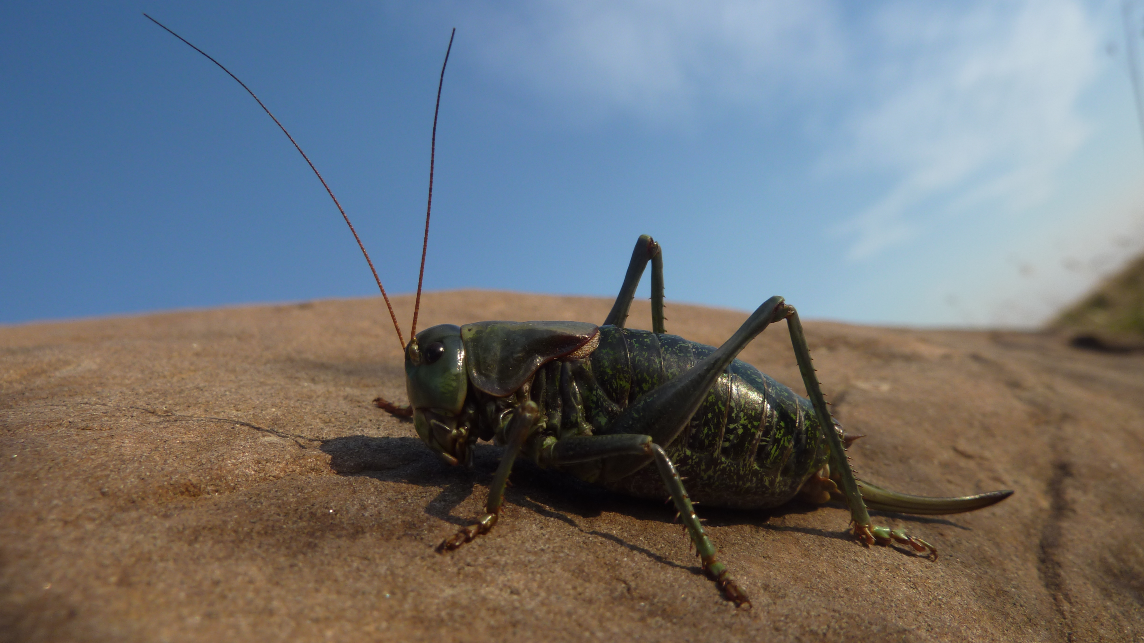 Anabrus simplex - Mormon Cricket